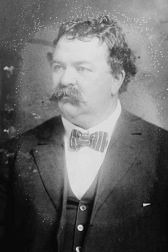 Joseph Cassidy was Borough President of Queens, New York City from 1902 to 1905. This photograph is from 1911.